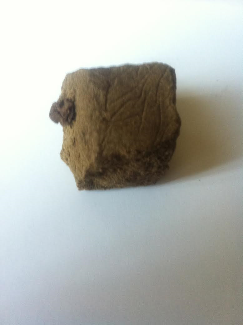 This is a picture of 25 gram of hash.